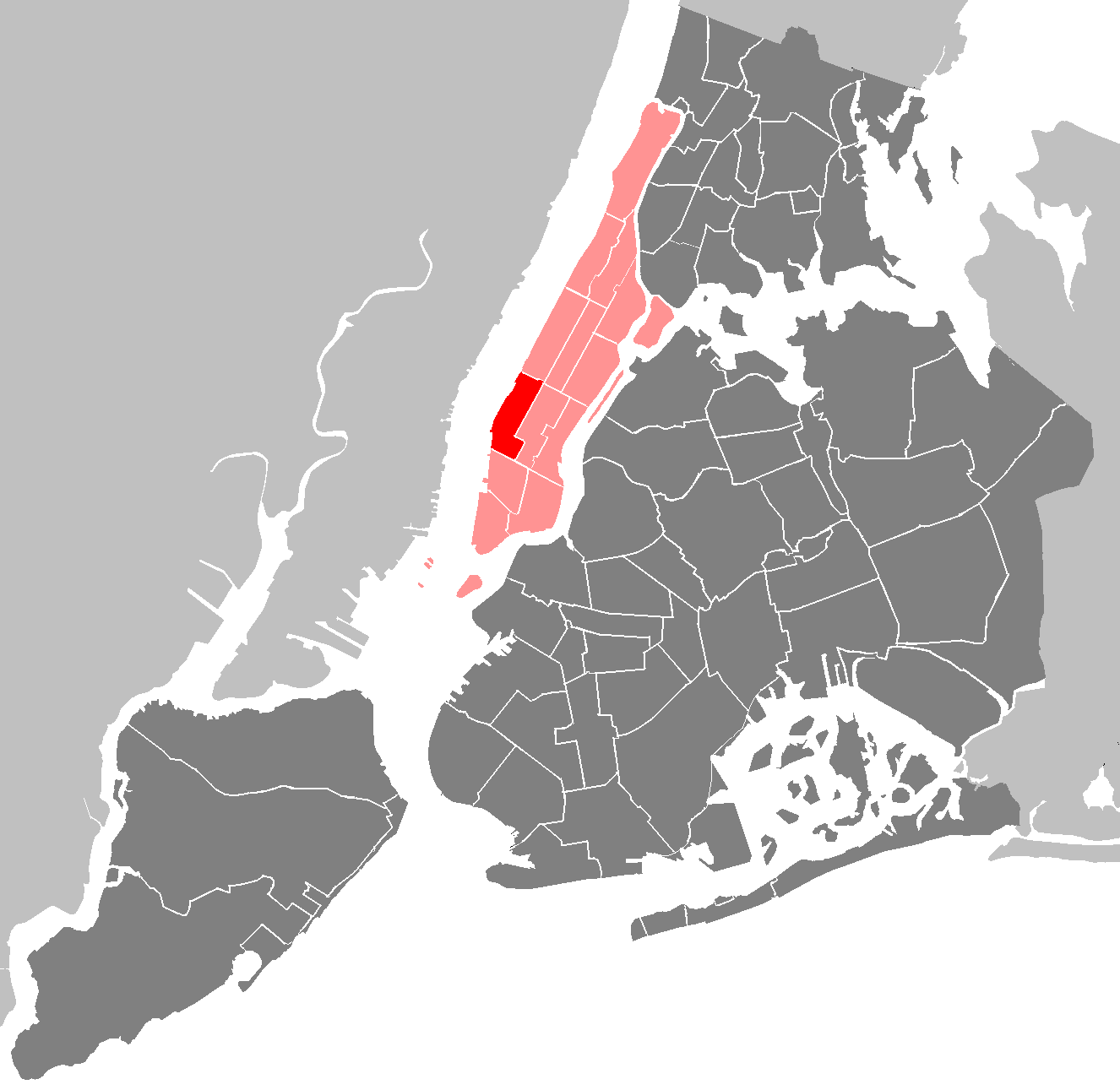 Category:Maps of New York City: New York City - Manhattan - Community Board 4.PNG